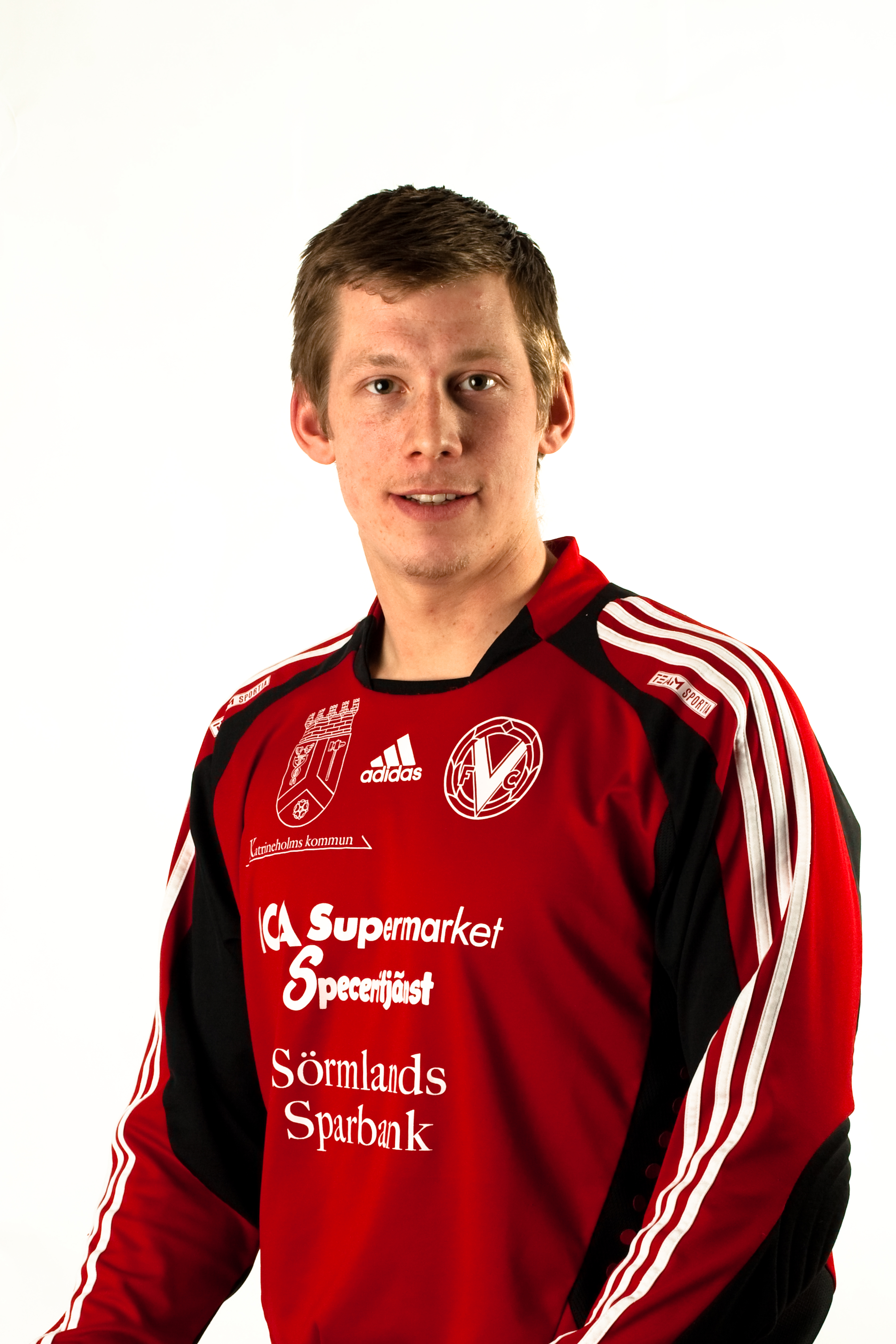 Gustav Jansson from a team photoshoot